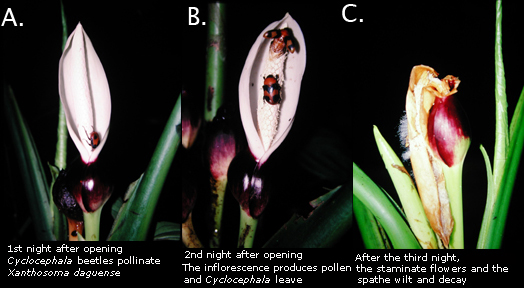 Author: Carlos Garcia-Robledo